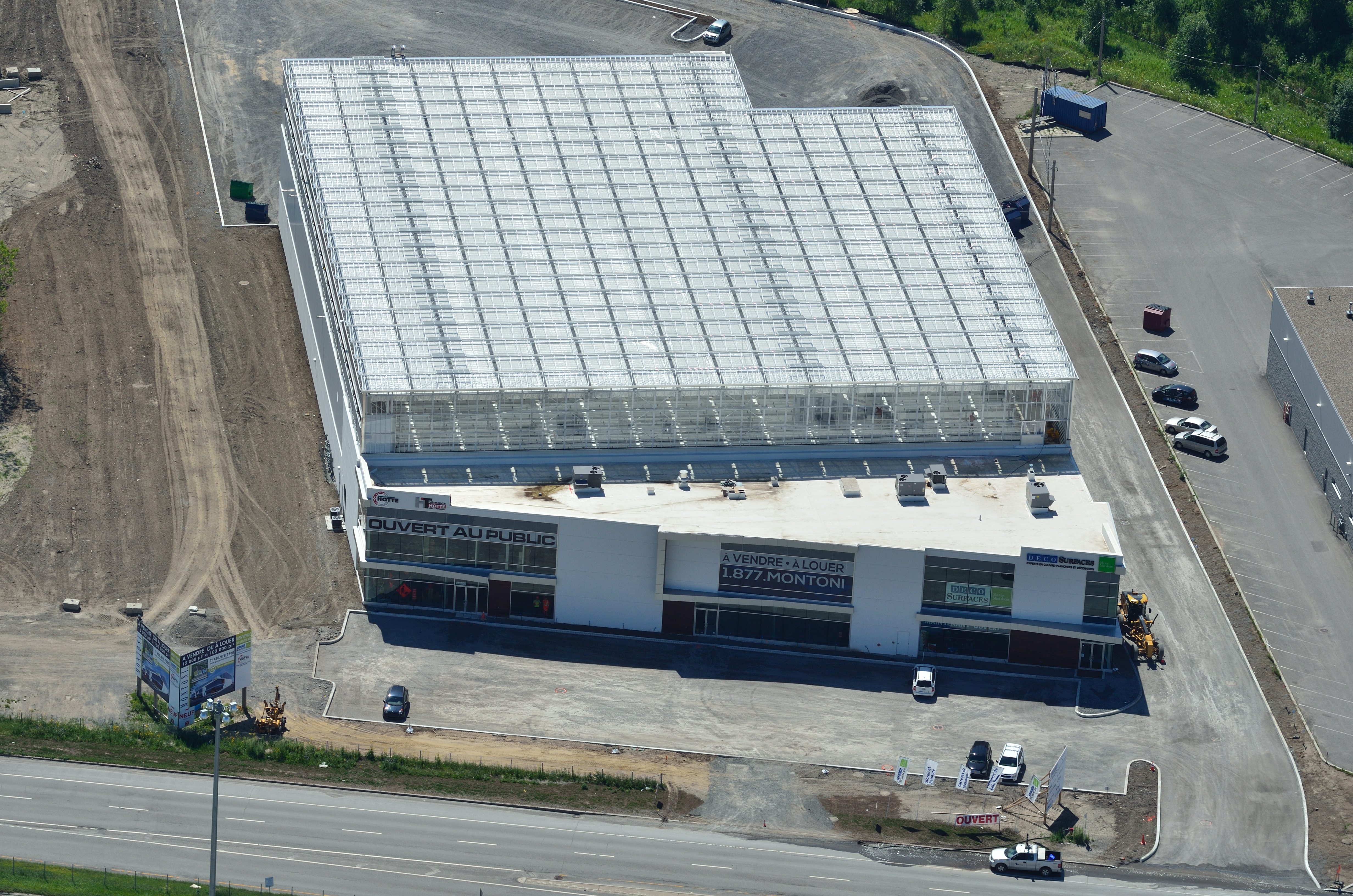 Aerial view of Lufa Farms, the world’s first commercial rooftop greenhouses. Laval.